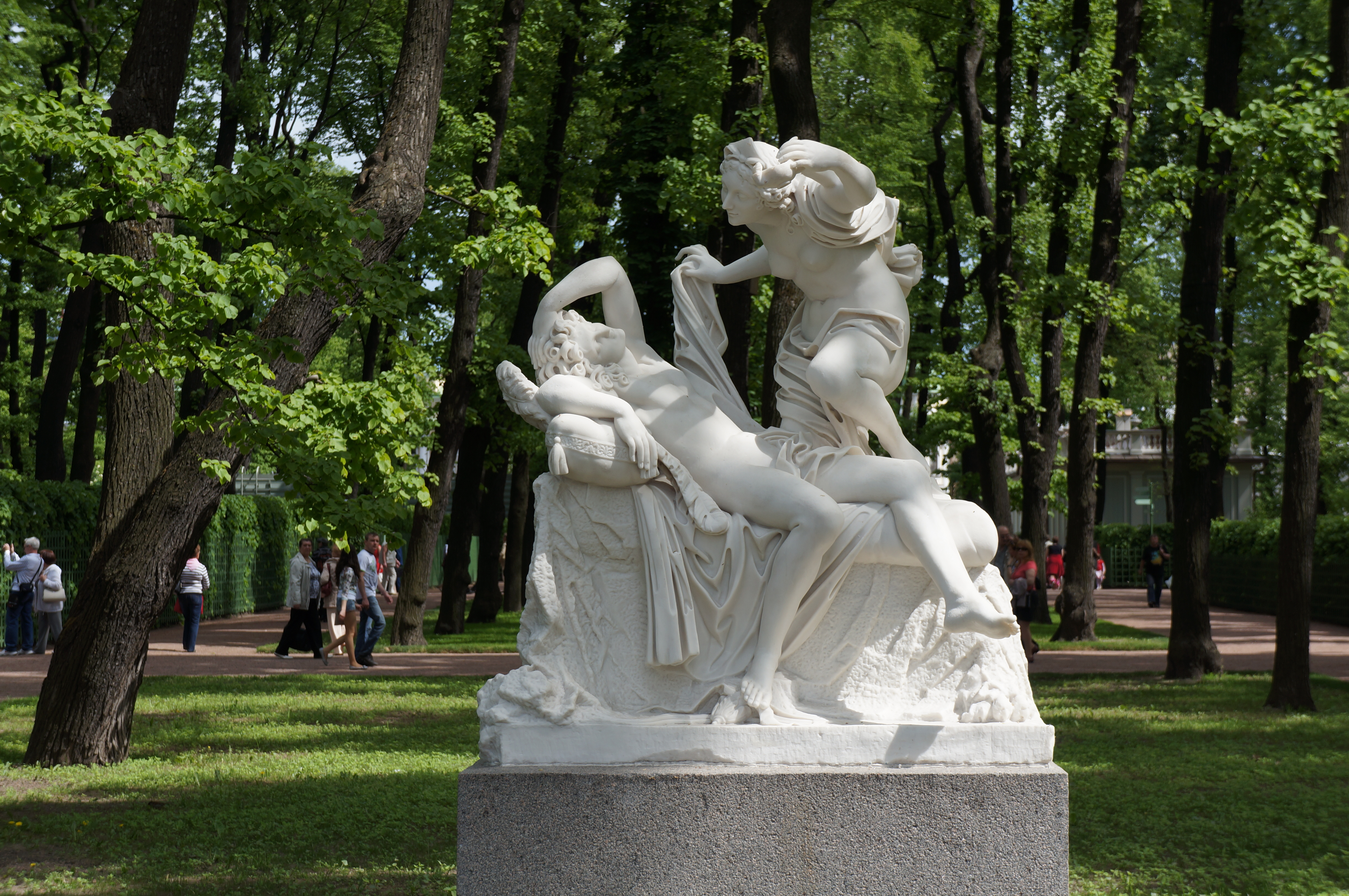 Скульптурная группа "Амур и Психея". Неизвестный скульптор. Италия, XVIII век. Фото 2012 года.